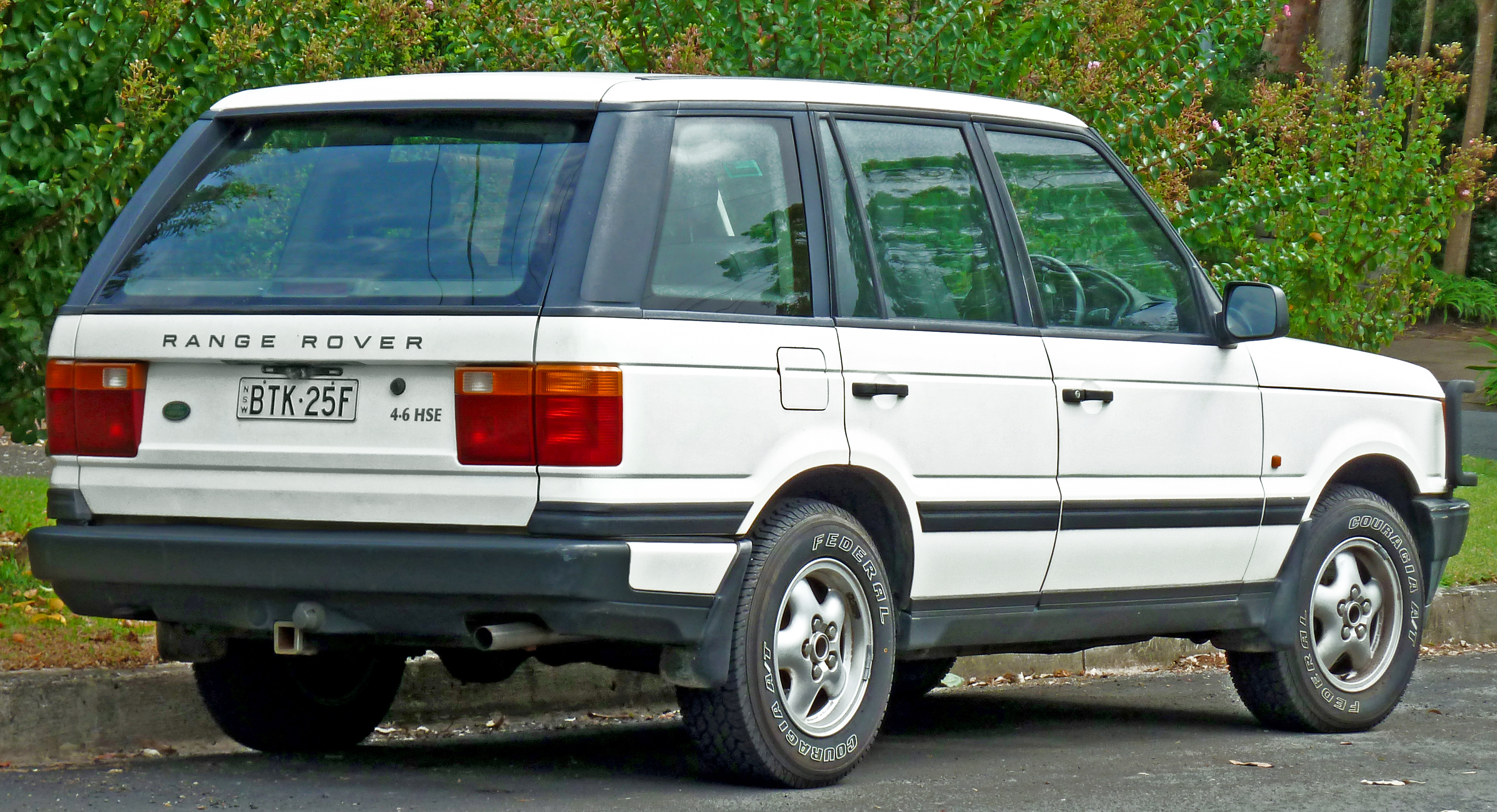 1995 Land Rover Range Rover (P38A) 4.6 HSE wagon. Photographed in Lindfield, New South Wales, Australia.